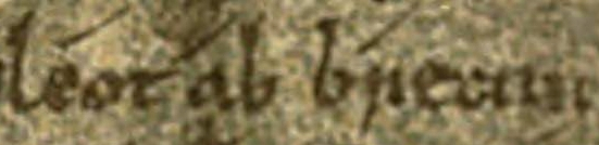 An cropped image of folio 4 from the Book of Deer. This cropped text dates from the early 12th century